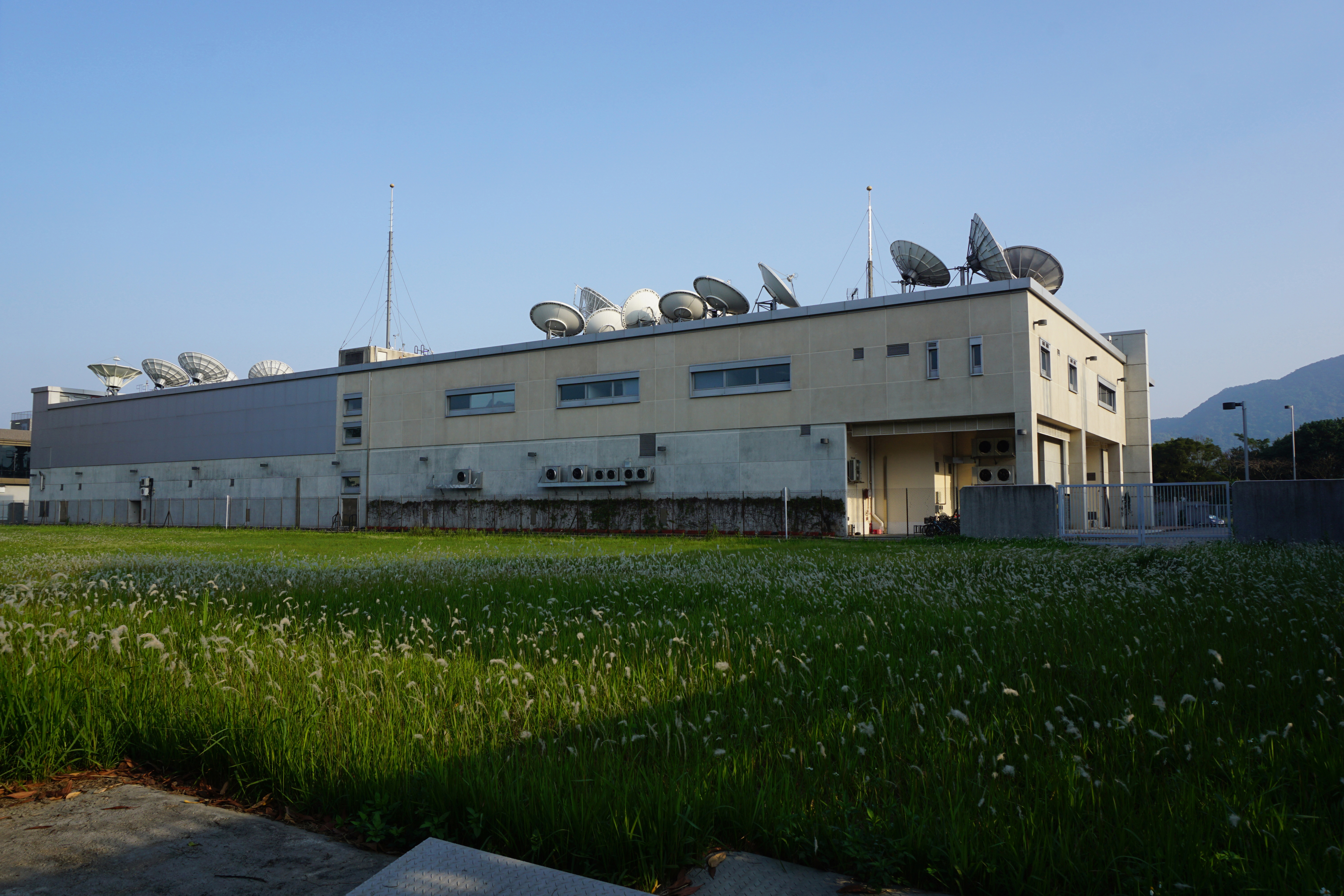 Asia Satellite Telecommunications in Tai Po, Hong Kong.